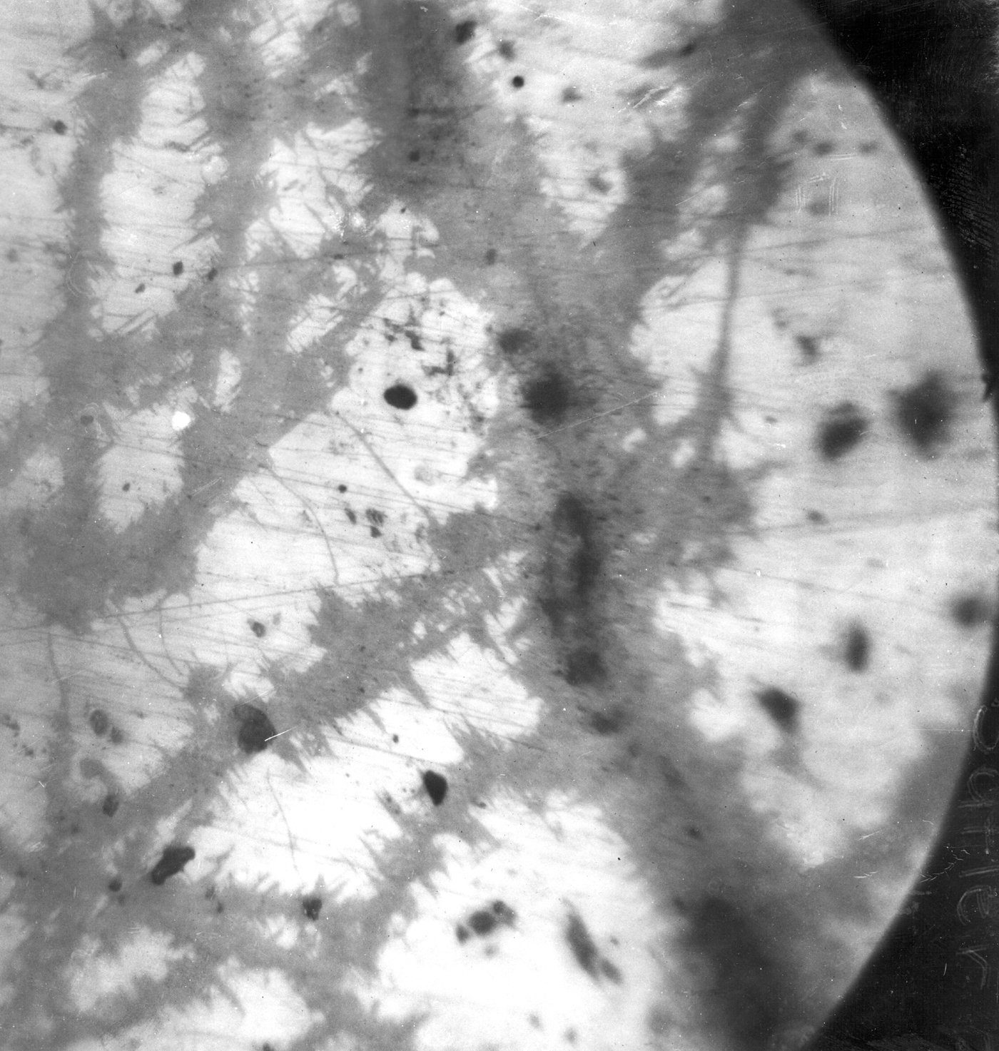 Photomicrograph: Covellite replacing chalcopyrite, from O.K. and Horn Silver Mines, same specimen as Butler photo 112, enlarged 210 diameters. Utah. 1908. Portion is plate 22-B in U.S. Geological Survey. Professional paper 80. 1913.